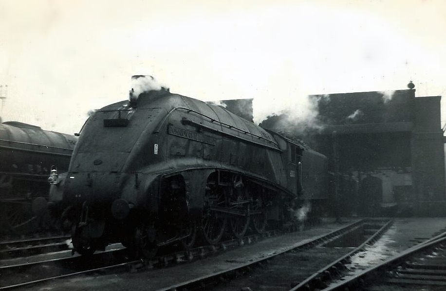 LNER Gresley Class "A4" 4-6-2 No.60013 "Dominion of New Zealand" at Kings Cross "Top Shed" on a drizzly day I recollect was in about May 1963. Scanned photo from one of mine taken with a mere Brownie 127 - hence doubtful quality!